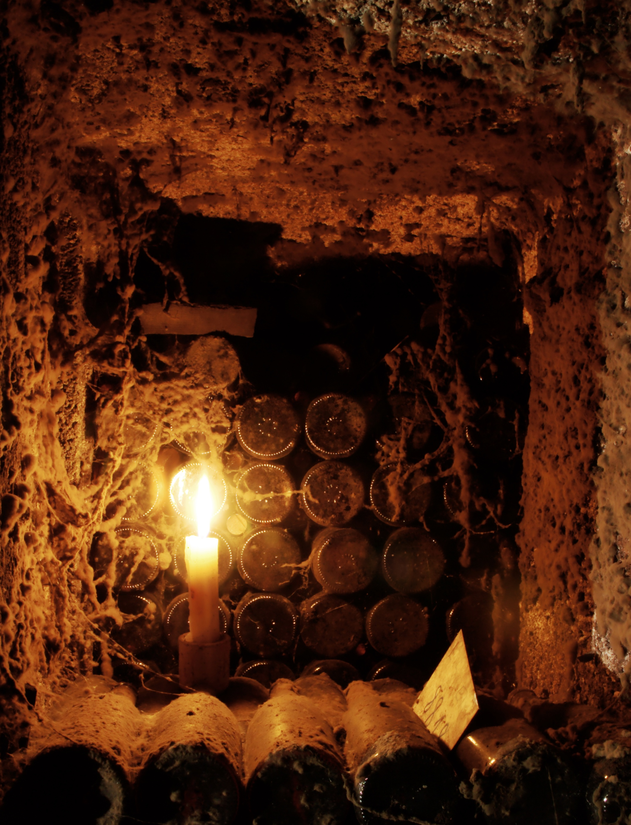 Old bottles of wine aging by candle light